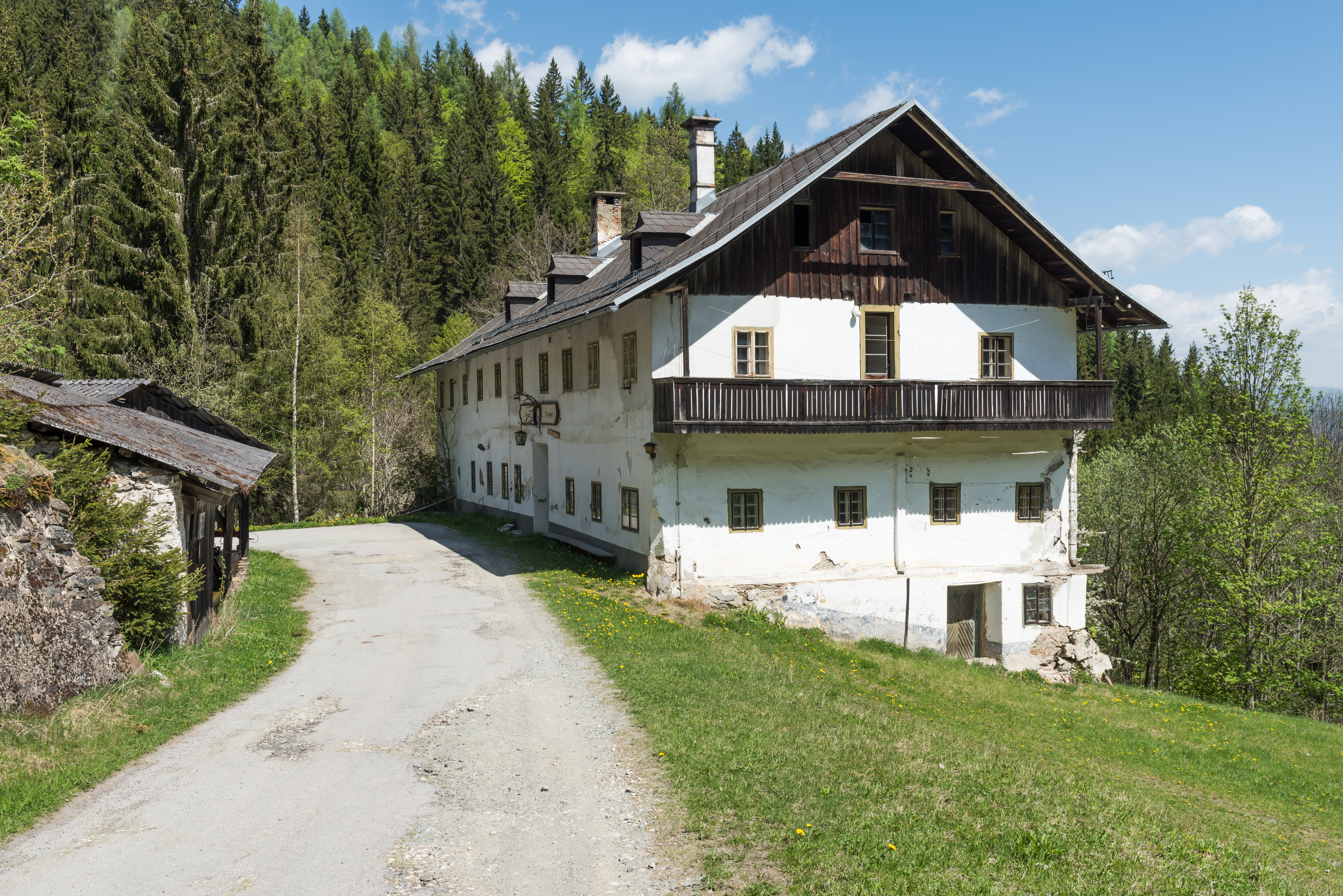 Alpine bath Saint Leonard at Benesirnitz #6, municipality Albeck, district Feldkirchen, Carinthia, Austria, EU